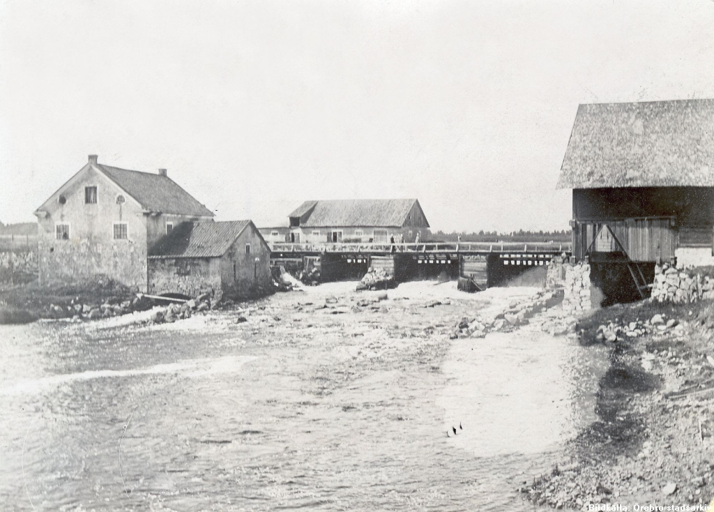 The upper mill at Snavlunda, Örebro, Sweden